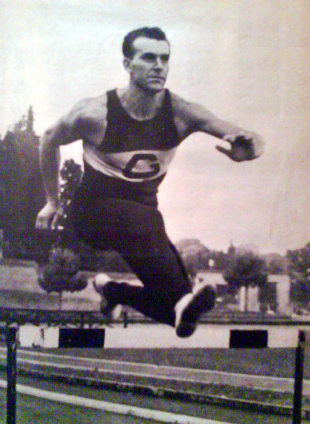 Italian athletic Antonio Siddi doing a hurdles race. He was a sprinter in the Olympics of 1948, and not usually a "hurdler", but apparently had no problems with the hurdles either.[1] Time and location unknown.